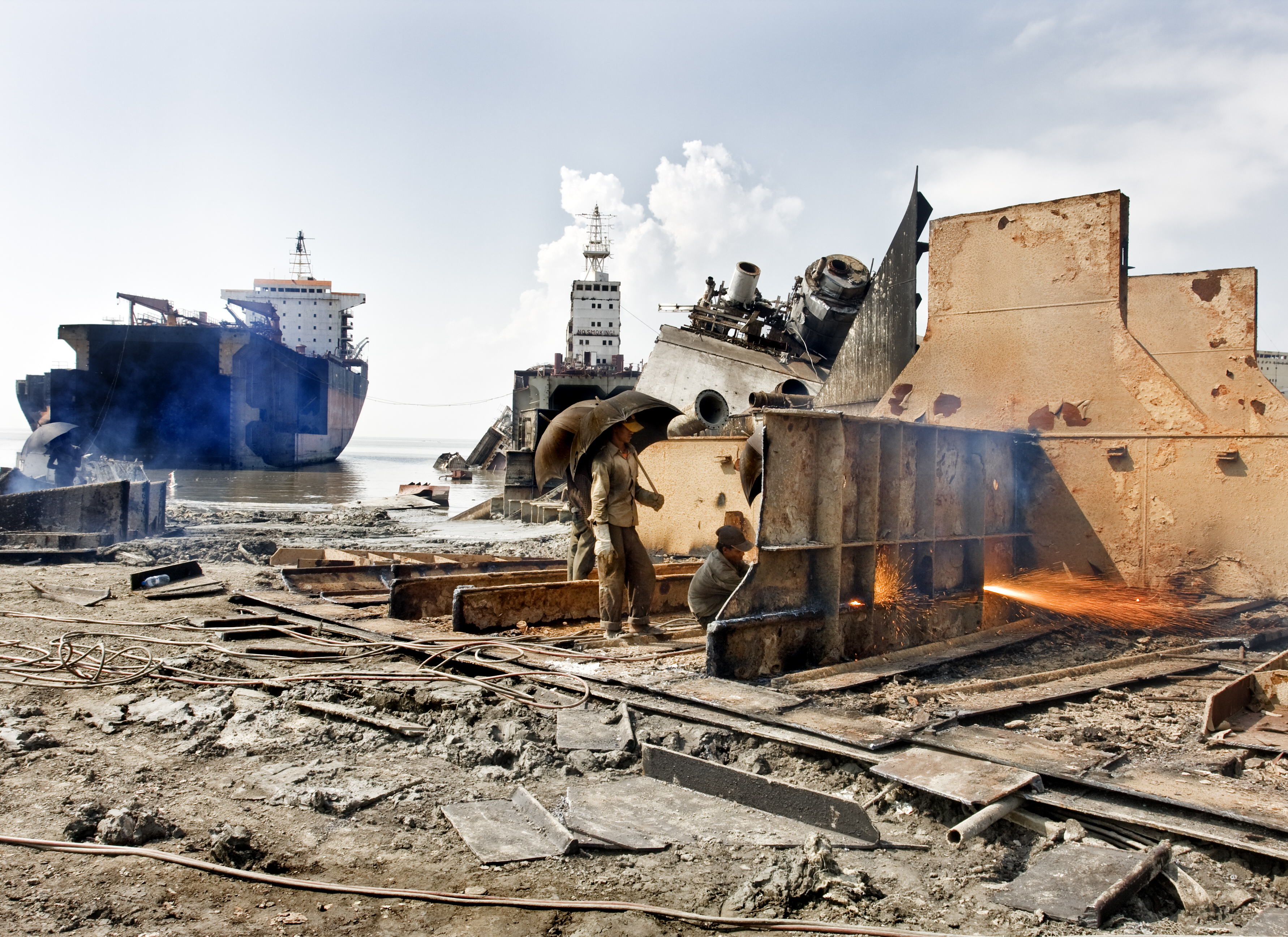 Ship Breaking by Gas Cutting in Bhatiary Yard 01, Chittagong Bangladesh